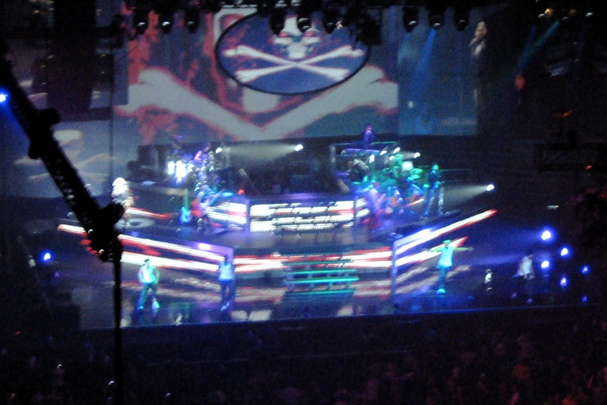 Gwen Stefani performing "Rich Girl" at the Arrowhead Pond of Anaheim in Anaheim, California, United States